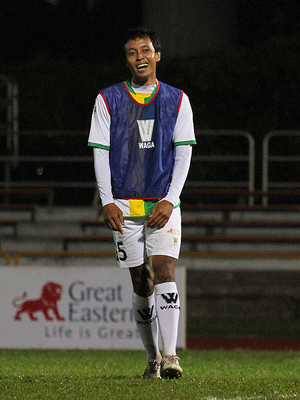 Singapore footballer, Fadhil Noh, in action for Woodlands Wellington in a S.League pre-season friendly against SAFFC on 09 January 2013.